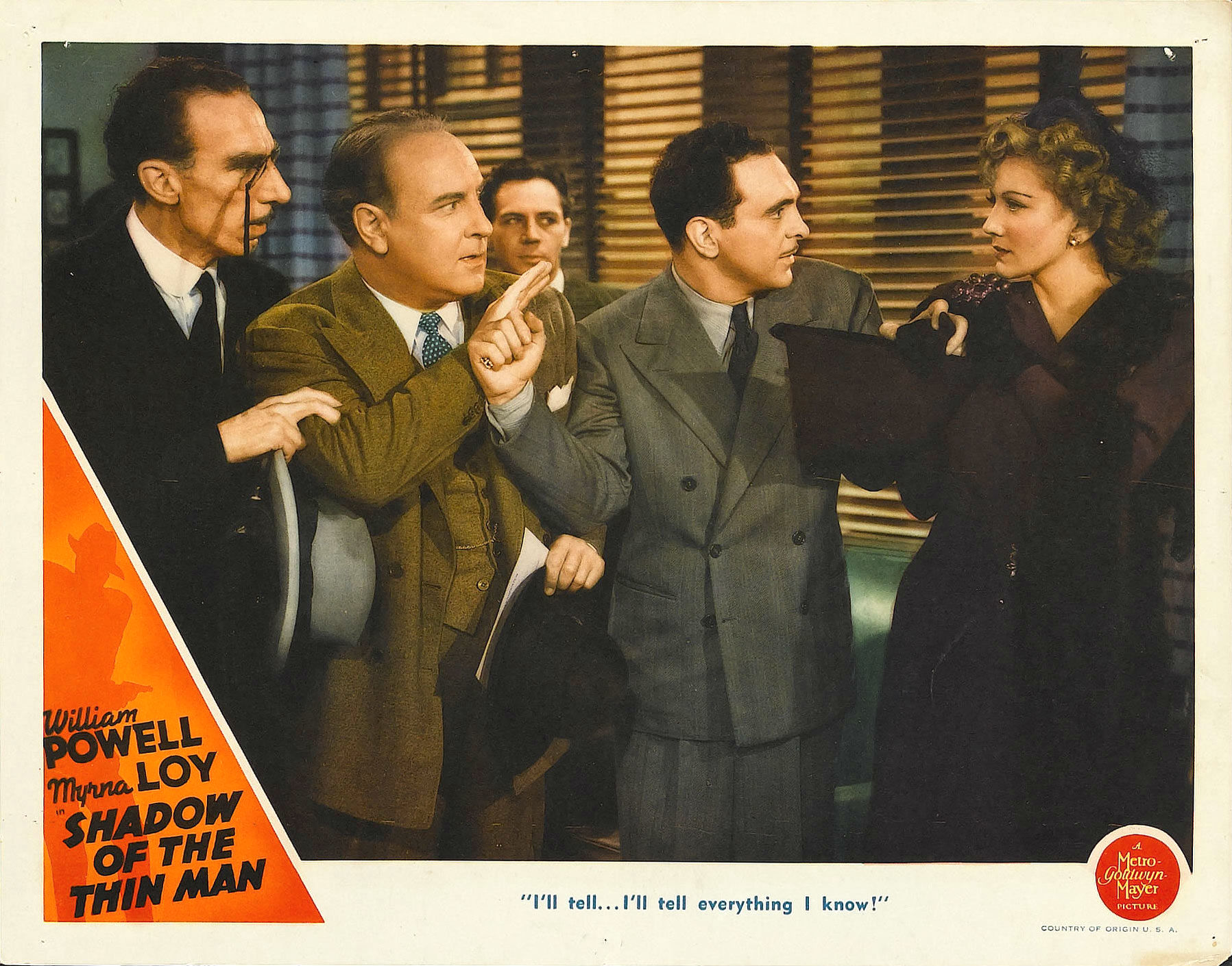 Lobby card for the 1941 film Shadow of the Thin Man.